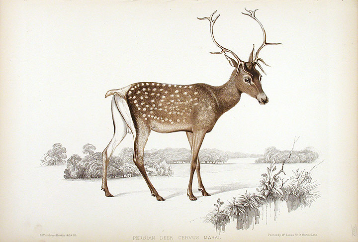 Persian Deer, Cervus Maral in a hand-coloured lithograph printed by McLean & Co., circa 1850. Plate from John Edward Gray's "Gleanings from the Menagerie at Knowsley," a comprehensive visual survey of one of the largest private menagerie's in Victorian England.